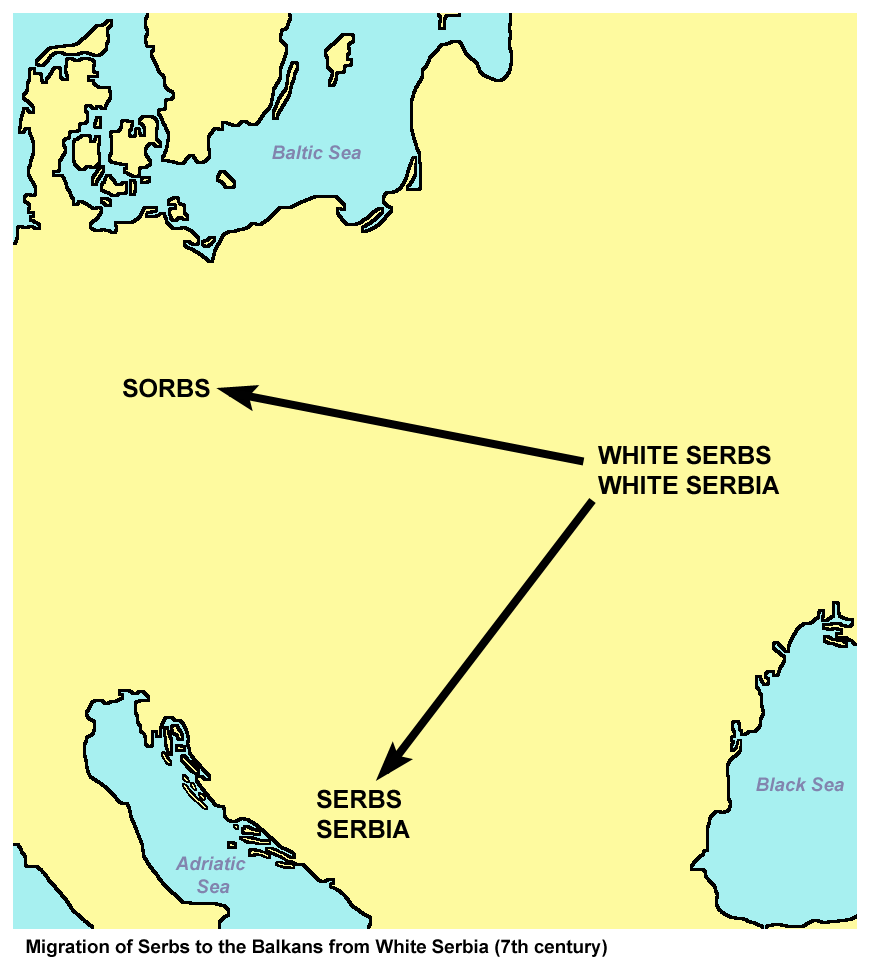 Migration of Serbs to the Balkans from White Serbia (7th century).